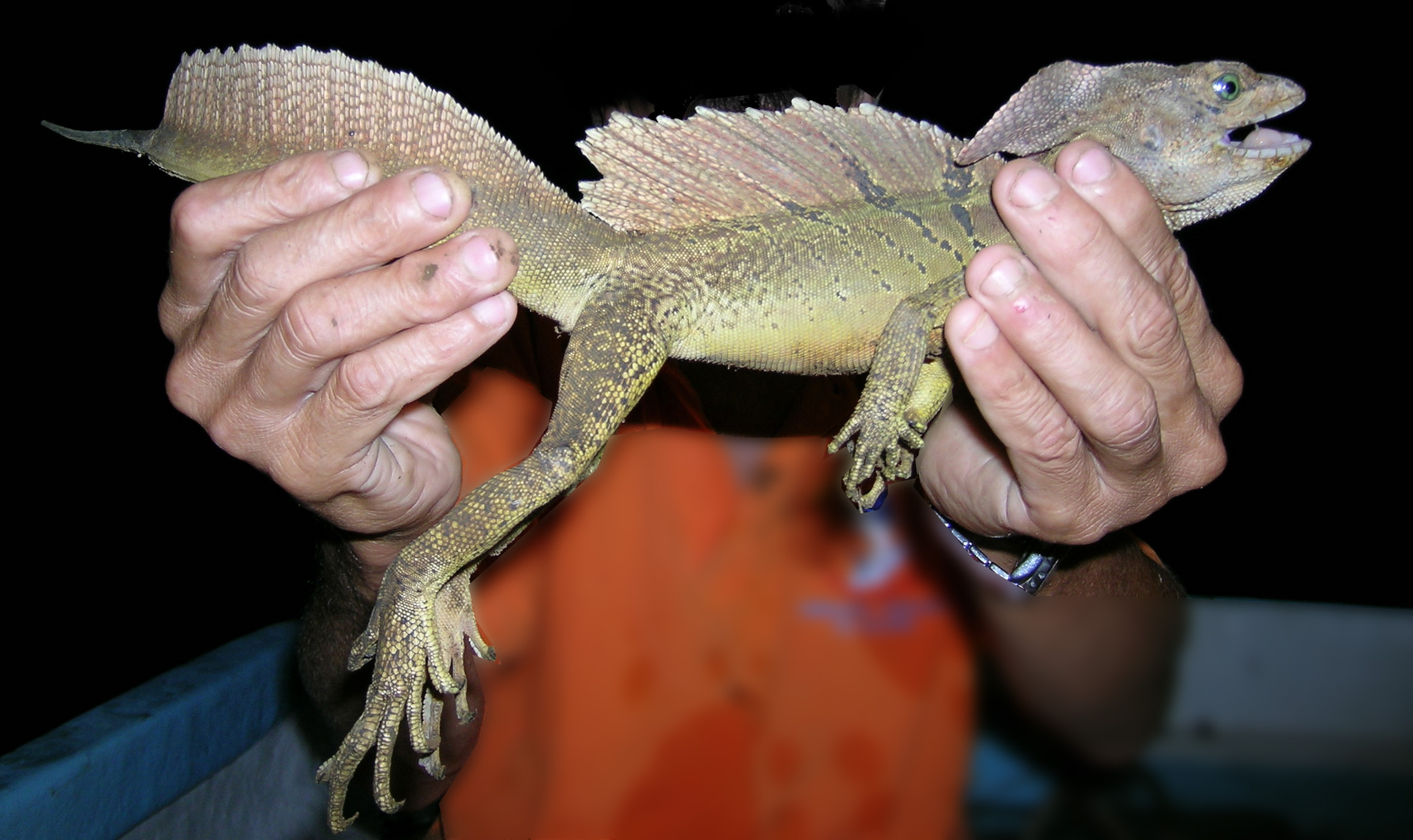 Jesus Christ Lizard